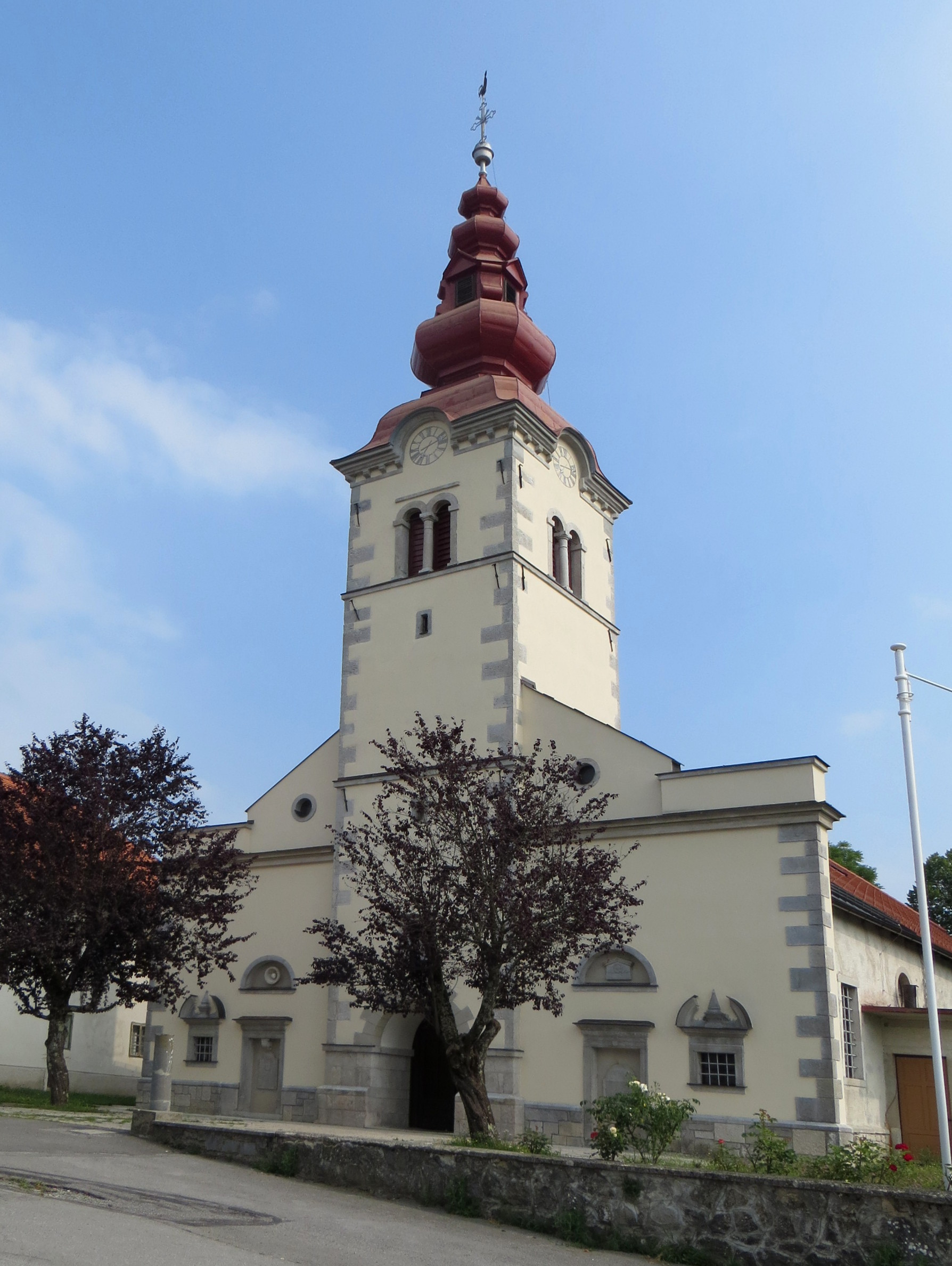 Saint Martin's Church in the hamlet of Fara in Hrenovice, Municipality of Postojna, Slovenia